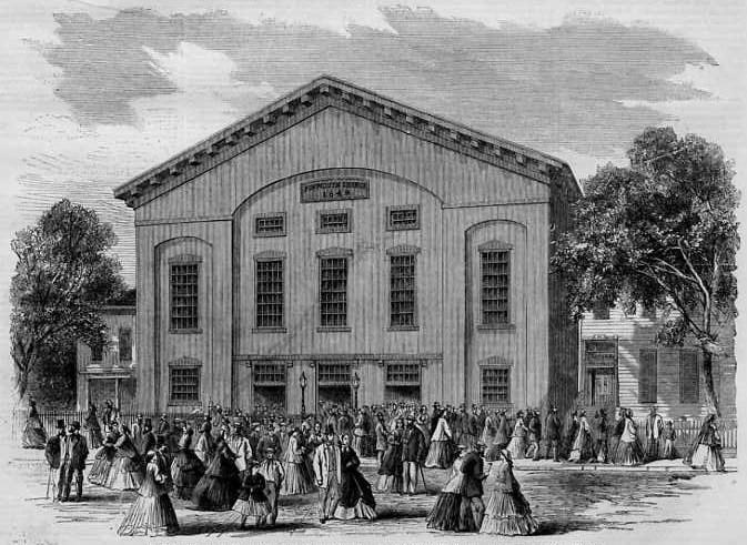 Plymouth Church (Henry Ward Beecher's), Brooklyn, New York, a wood engraving sketched by C. H. Wells and published in Harper's Weekly, August 1866.